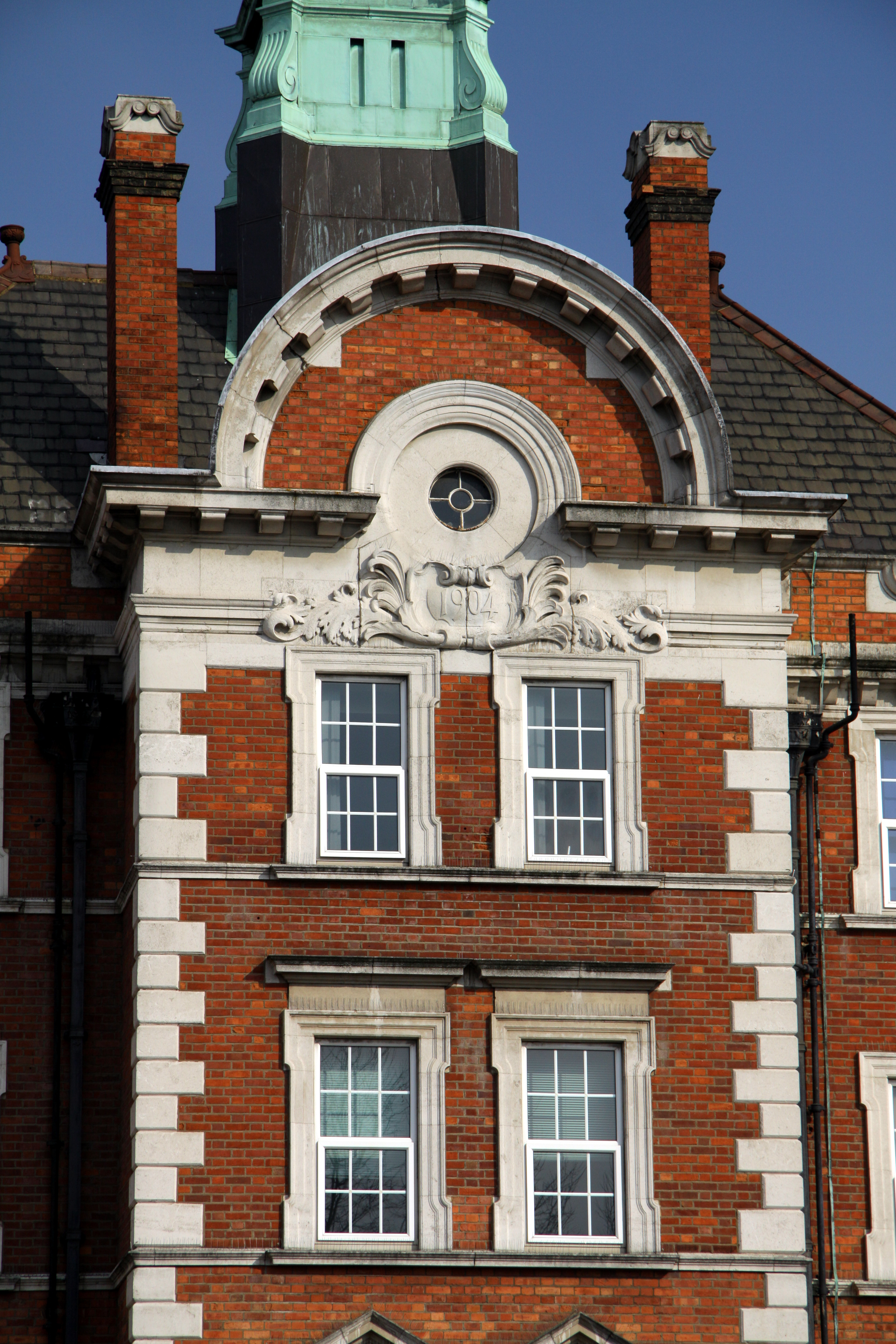 Details of main building of Hammersmith Hospital in London, England, Great Britain